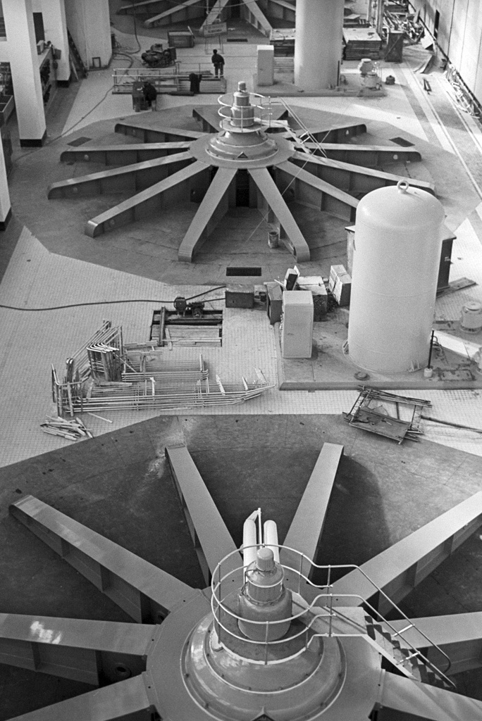 “Turbine hall”. The turbine hall of the Volzhskaya hydro power plant named after the 22nd Congress of the Soviet Communist Party (now Volzhskaya hydro-electric power plant). Twenty-two units deliver 115,000 kW each.